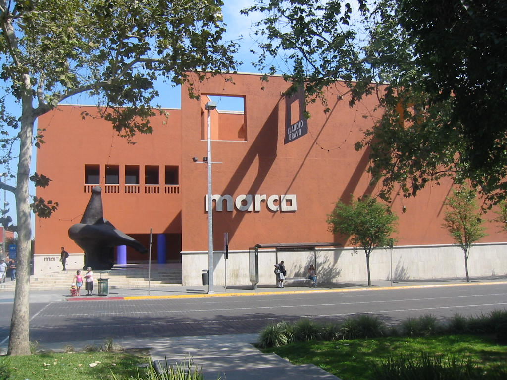 Museum of Contemporary Art in Monterrey N.L. México (MARCO Museum) built by Ricardo Legorreta in 1991.